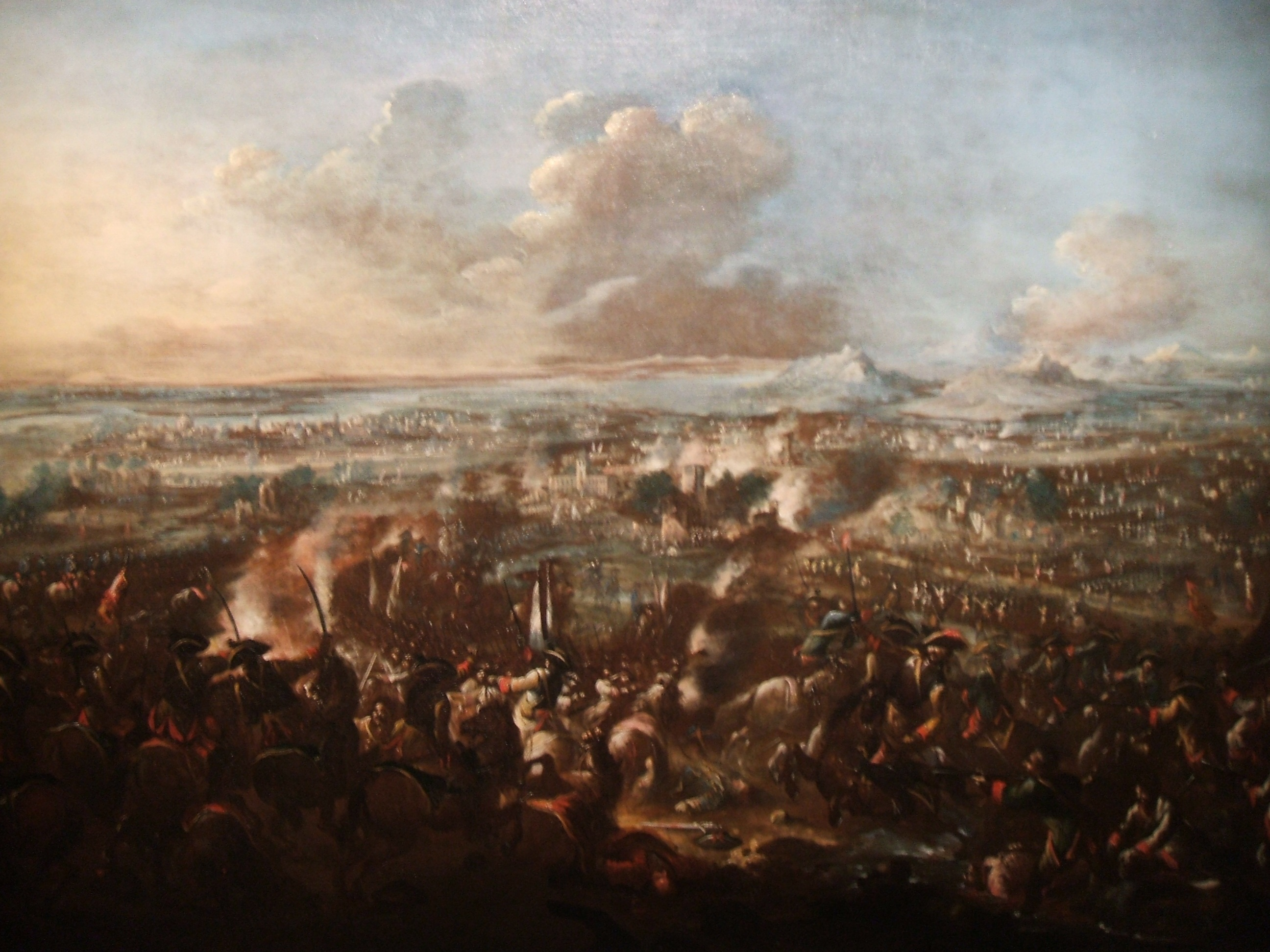 Battle of Turin, 1706